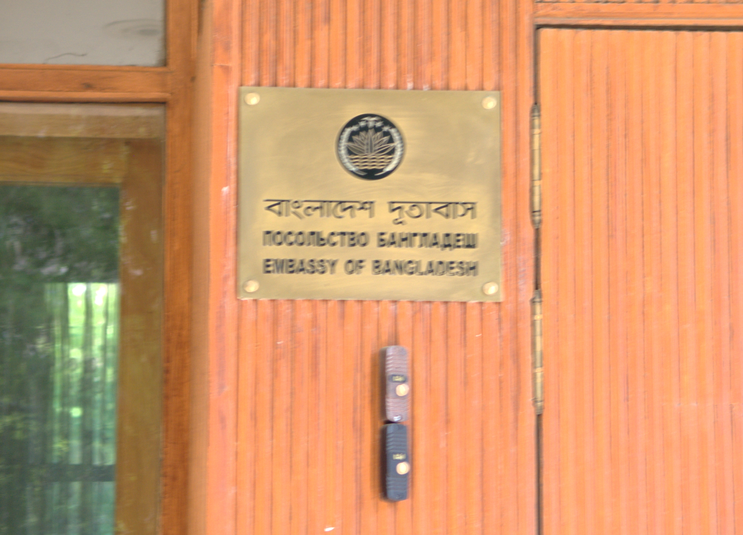 “Embassy of Bangladesh” plate on the Embassy of Bangladesh in Moscow (Zemledelcheskiy side-street 6).